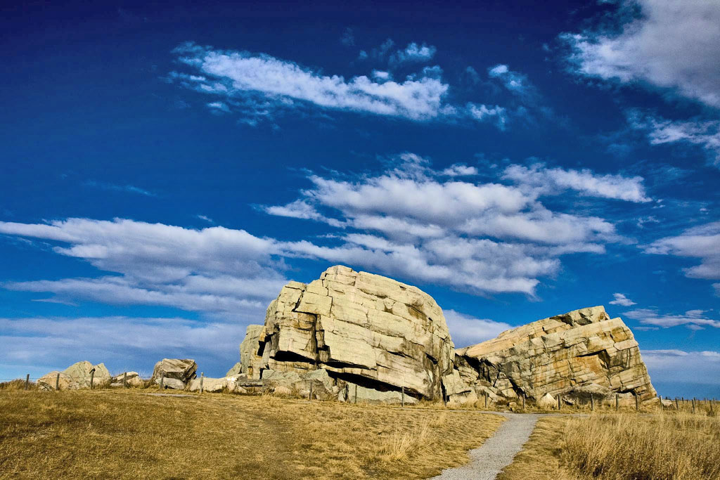 Big Rock (glacial erratic). Big Rock (also known as Okotoks Erratic) is a glacial erratic situated between the towns of Okotoks and Black Diamond, Alberta, Canada (18 kilometres south of Calgary). The 15,000 tonne (16,500 short ton) quartzite boulder is one of the world's largest known glacial erratics.